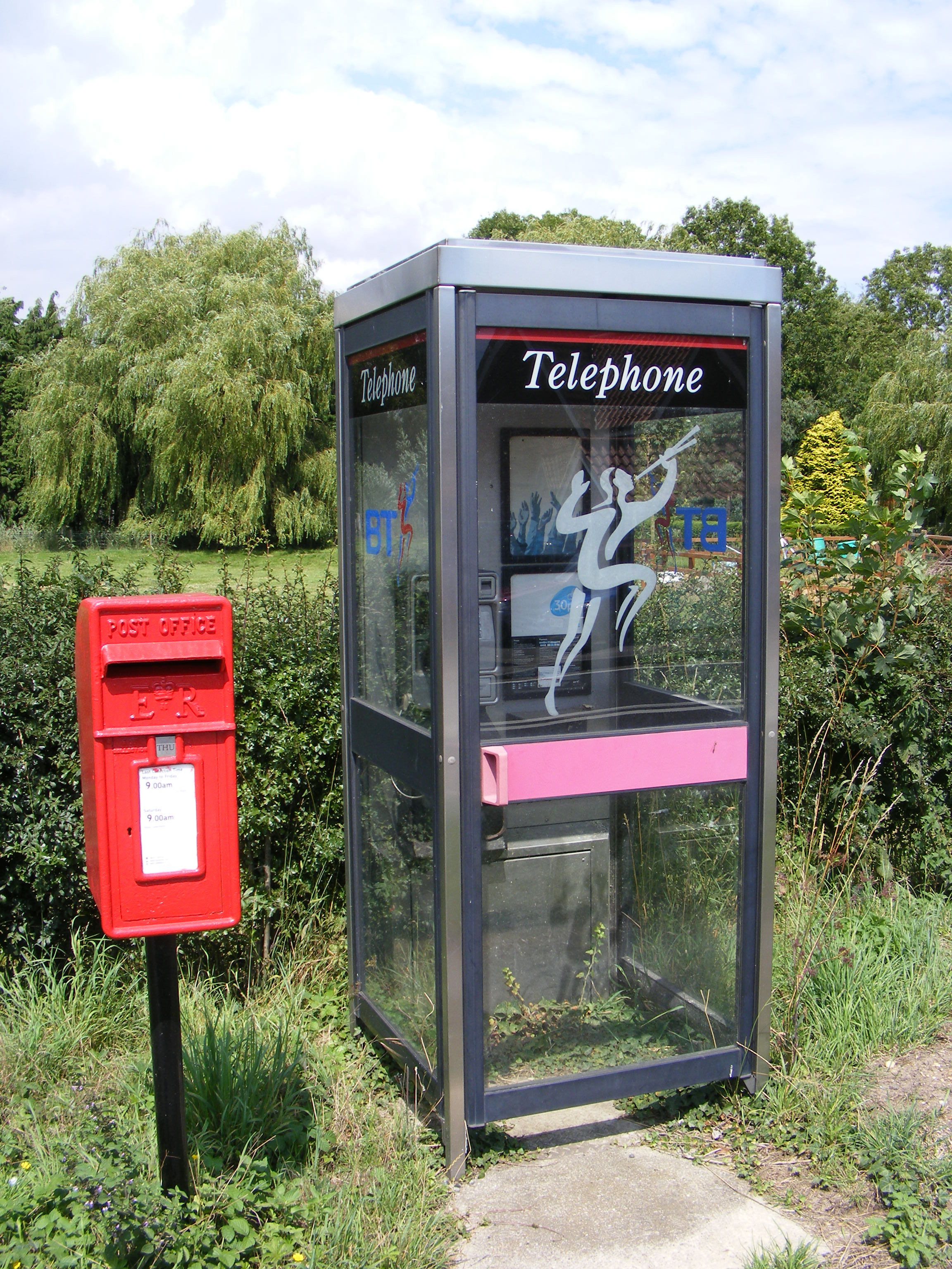 Farnham PO Postbox & Telephone Box Postbox no. IP17 4660